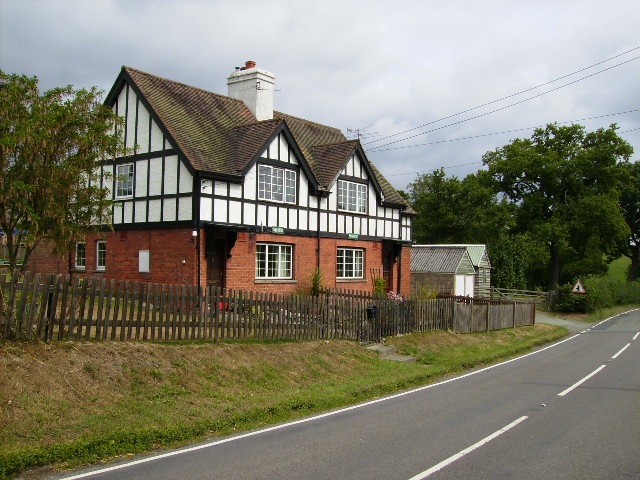 Black and white houses by the A489 road.